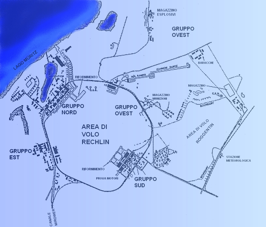 Modified drawing of installation of the Erprobungsstelle Rechlin in 1944 shows this map from the target documents of the 8th USAAF.